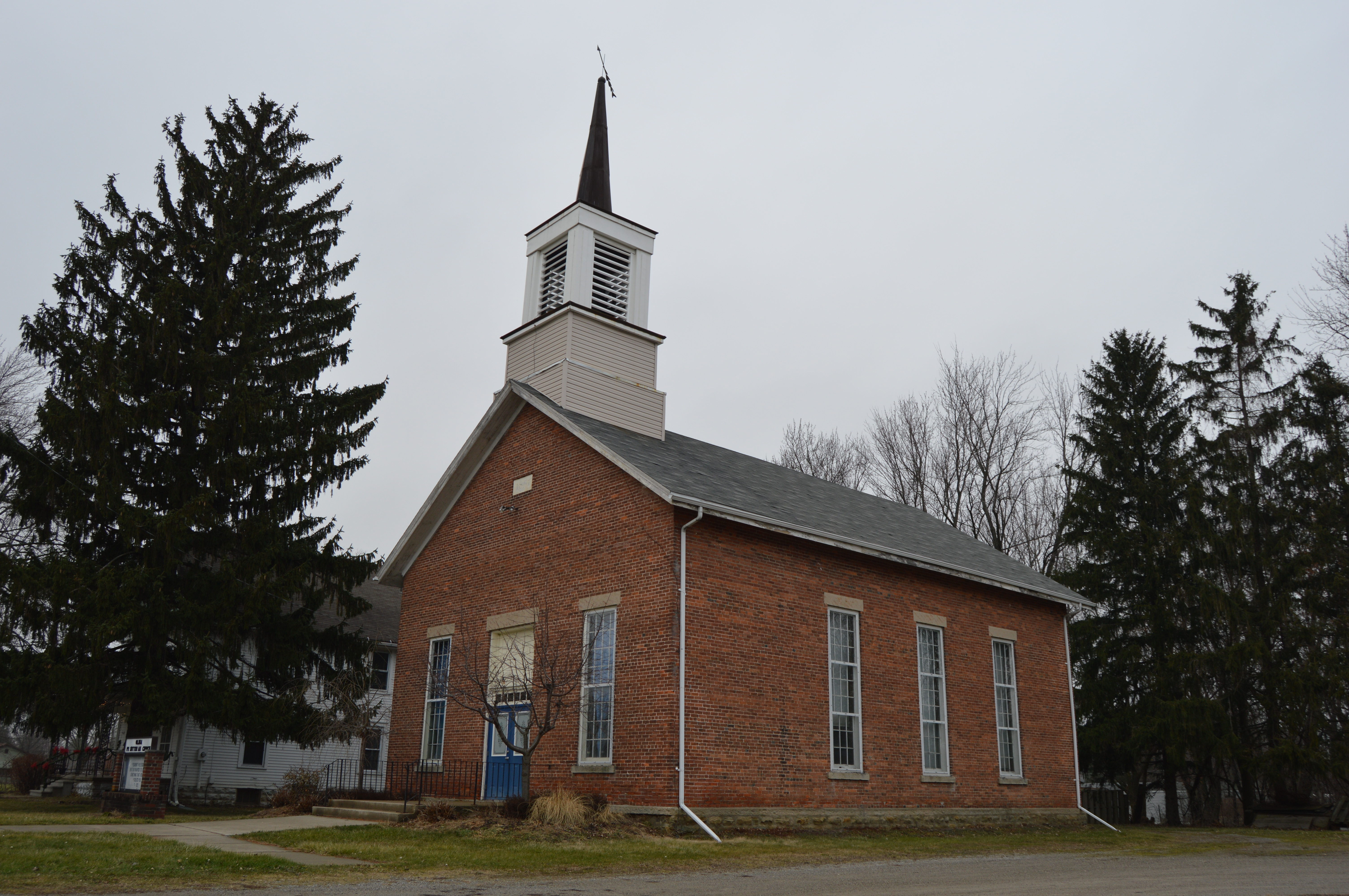 Front and eastern side of the former Olena Presbyterian Church, located on Peru-Olena Road in Olena, Ohio, United States. It was built in 1861.